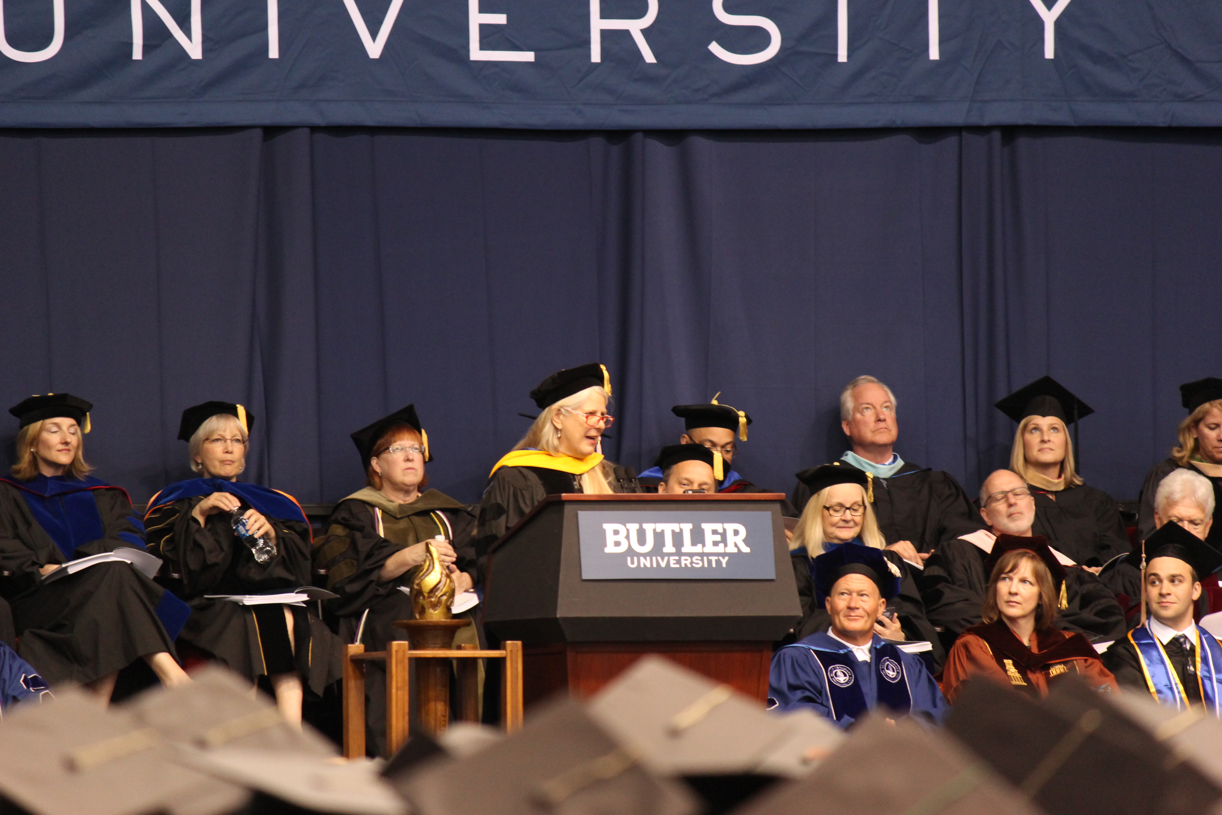 Jill Bolte Taylor Butler Graduation